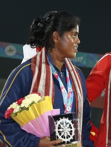 Nadeesha Dilhani Lekamge Of Sri lanka With Silver during 22nd Asian Athletics Championships in Bhubaneswar.